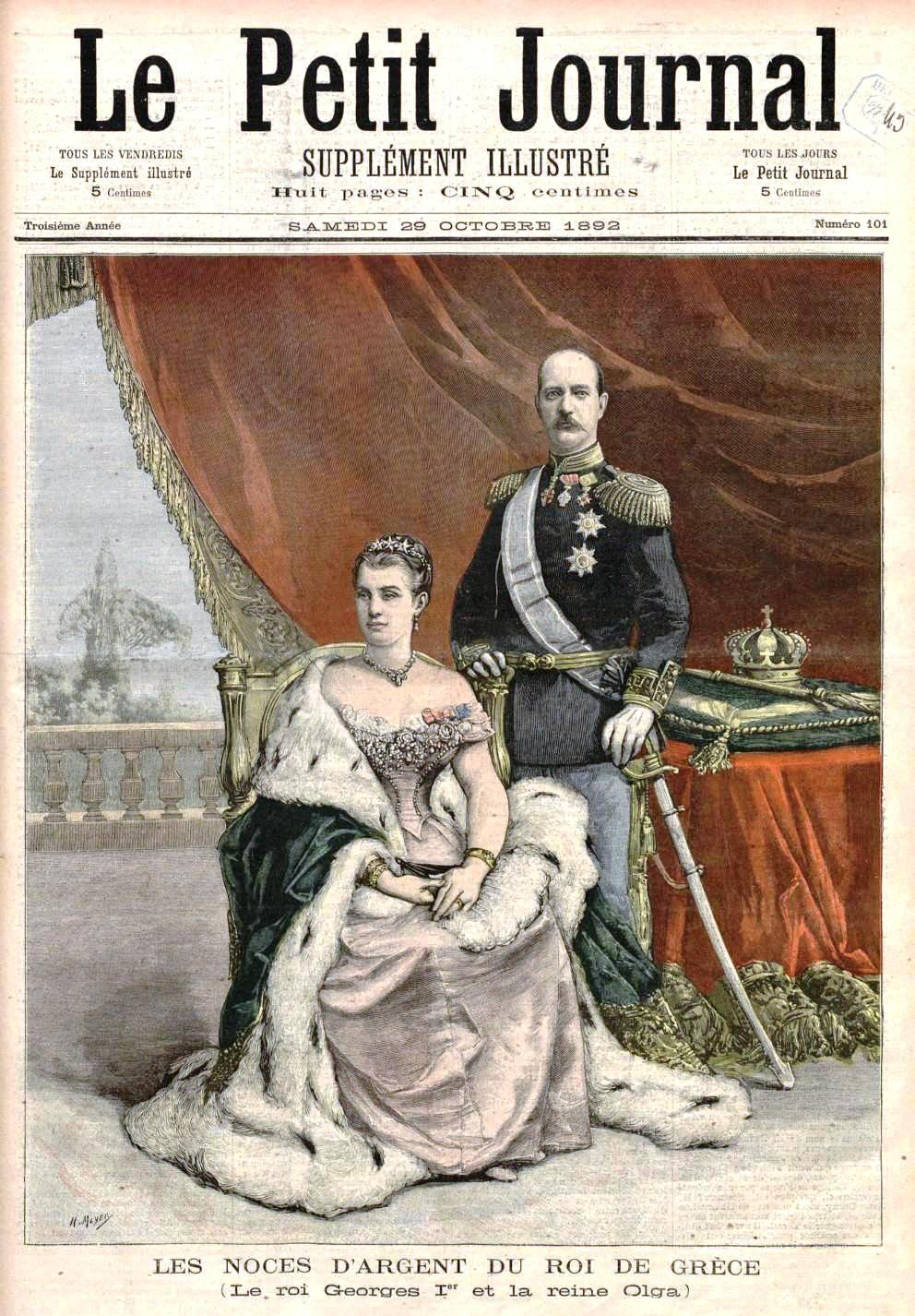 Cover of the Le Petit Journal celebrating the silver anniversary of the marriage of King George I of Greece and Queen Olga in 1892. Image found at the online archive of the French National Library, slightly cropped & retouched.